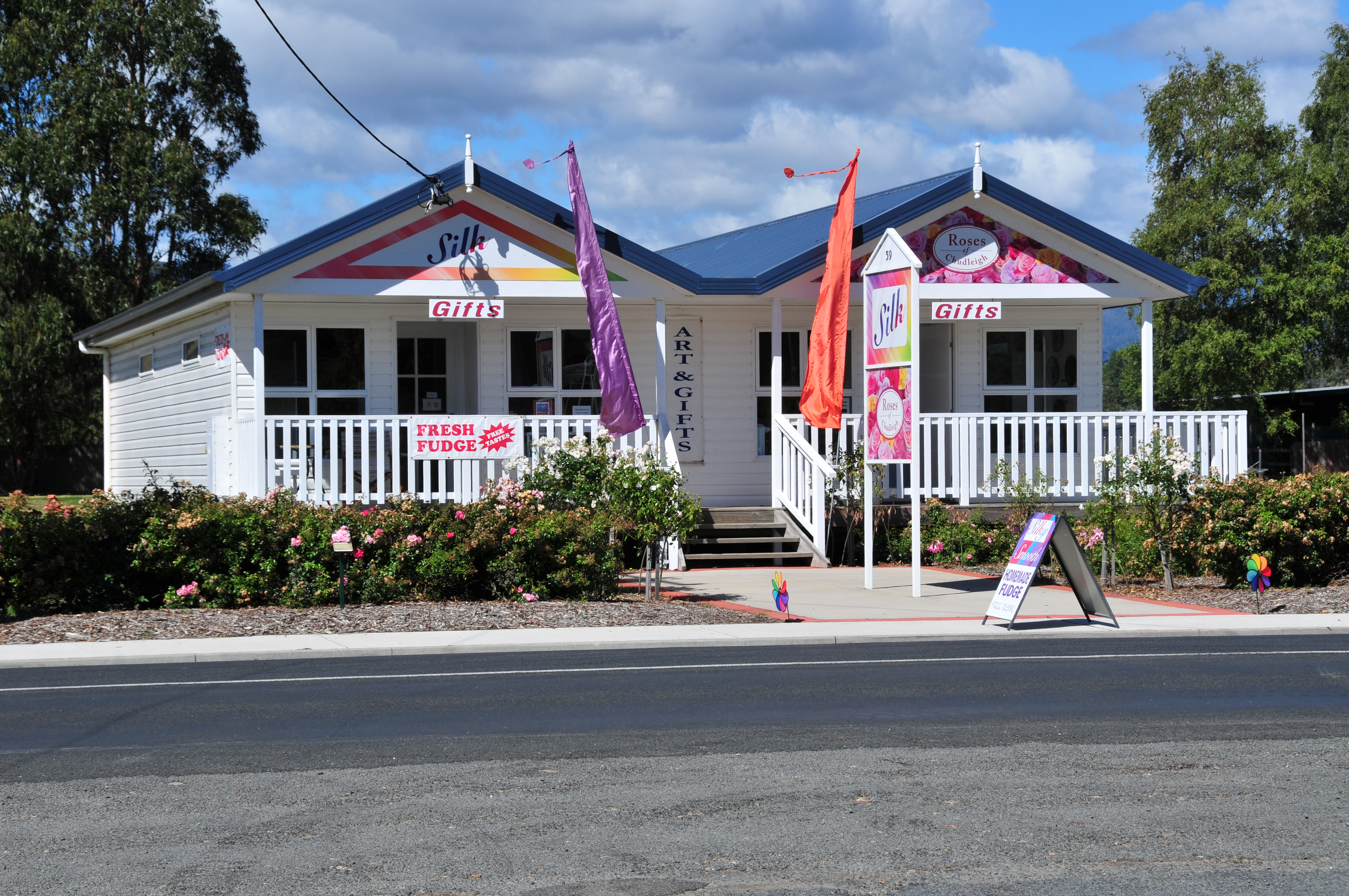 "Roses" and "Silk" shops in Chudleigh, Tasmania, Australia